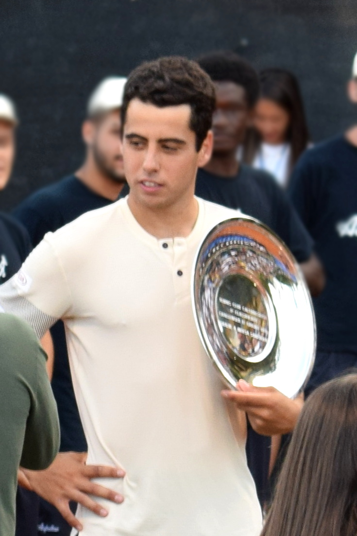 Jaume Munar, Spanish tennis player, during the prizegiving of 2018 Città di Caltanissetta tennis tournament.